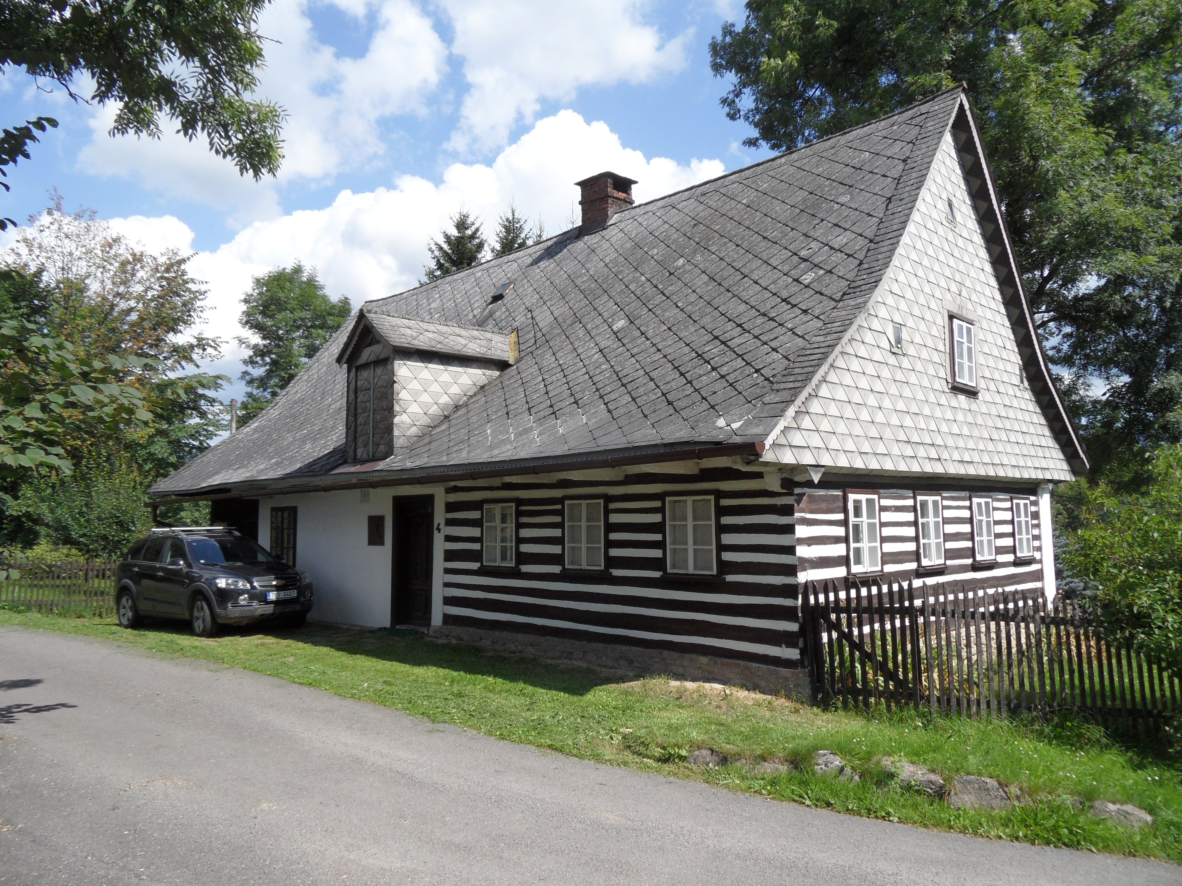 Dolní Morava A. Cottage near Road, Ústí nad Orlicí District, the Czech Republic.